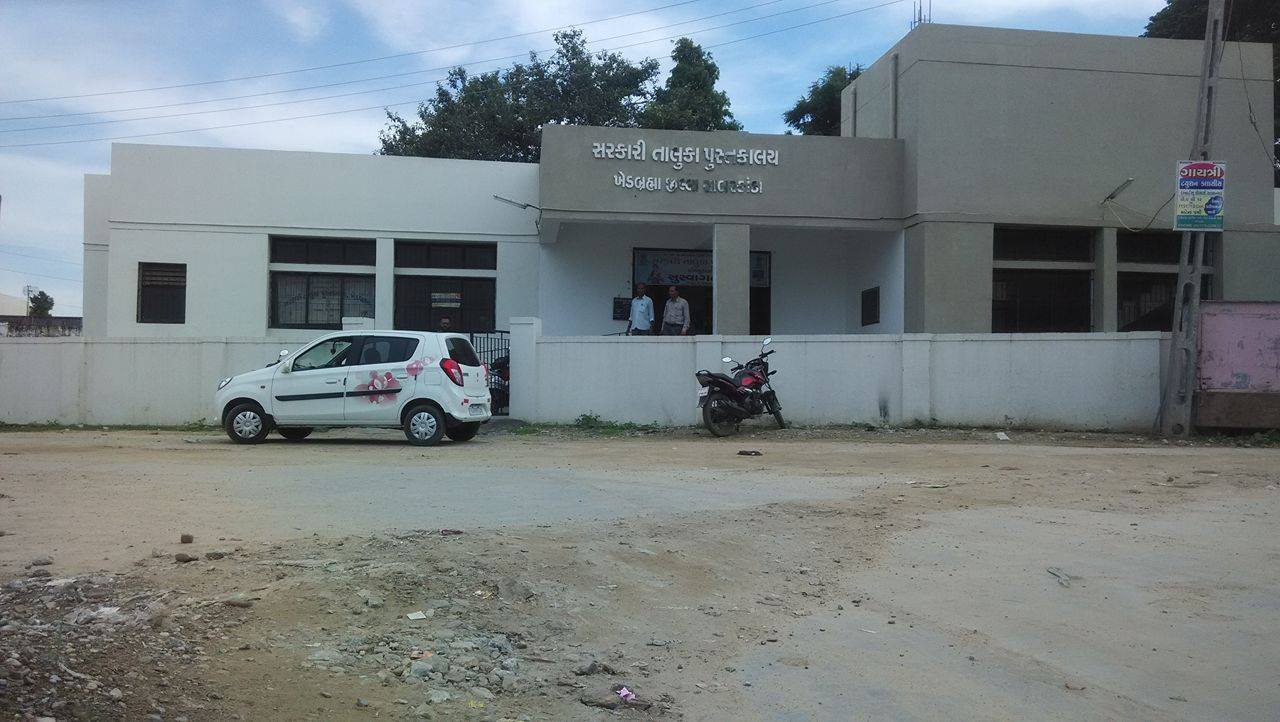 Government Taluka Library, Khedbrahma Gujarat India